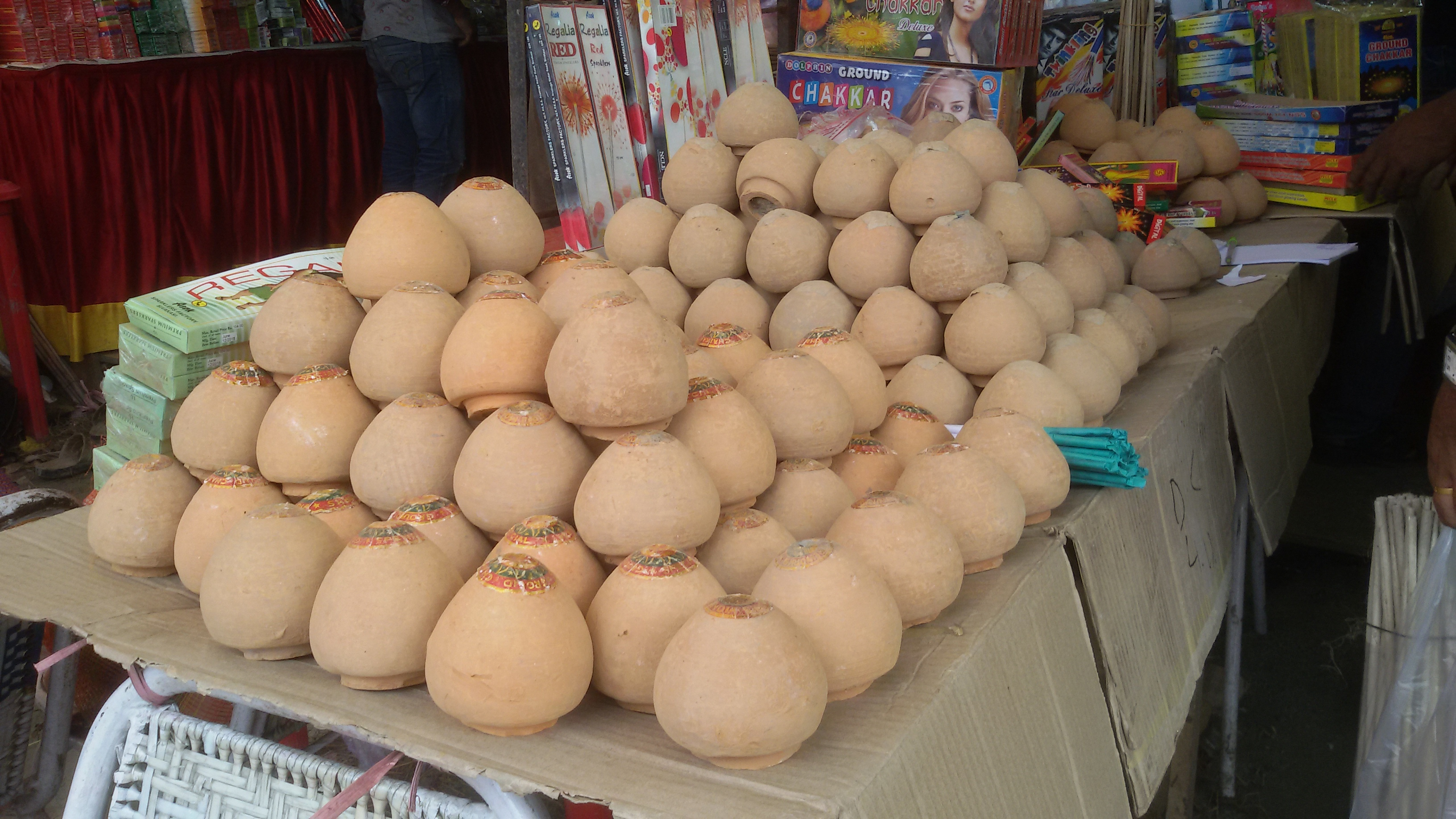 Tubris on sale at the fireworks market organized by the Kolkata Police at the Behala Blind School grounds near Behala Chowrasta.